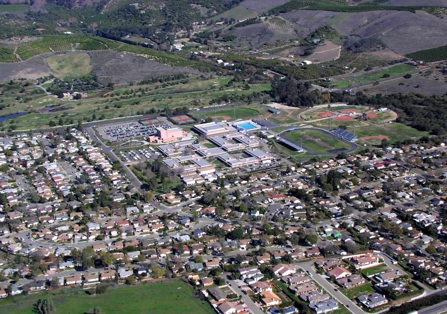 Dos Pueblos High School from above, from south-southwest, photo by self, January 2009; GFDL/equiv